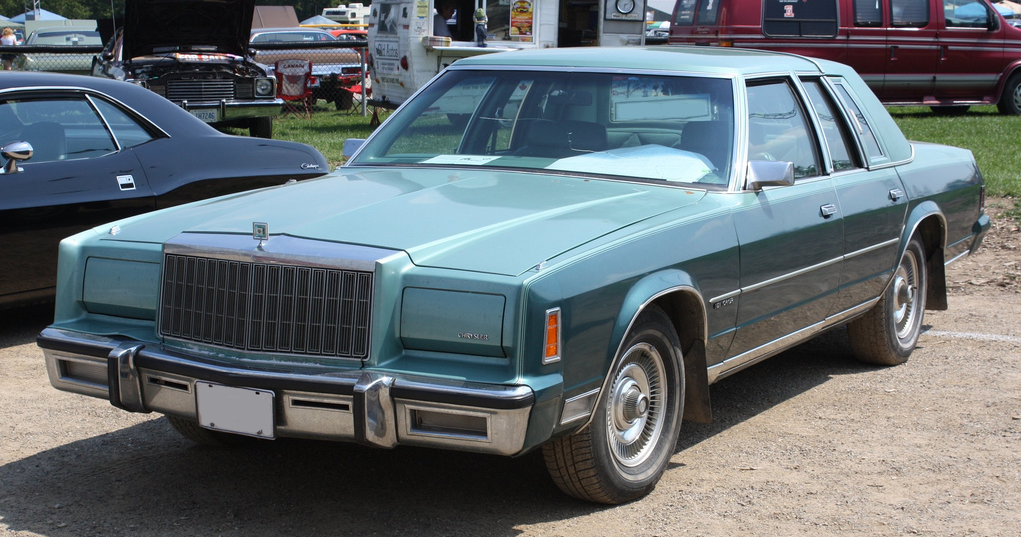 1979 R-body Chrysler New Yorker